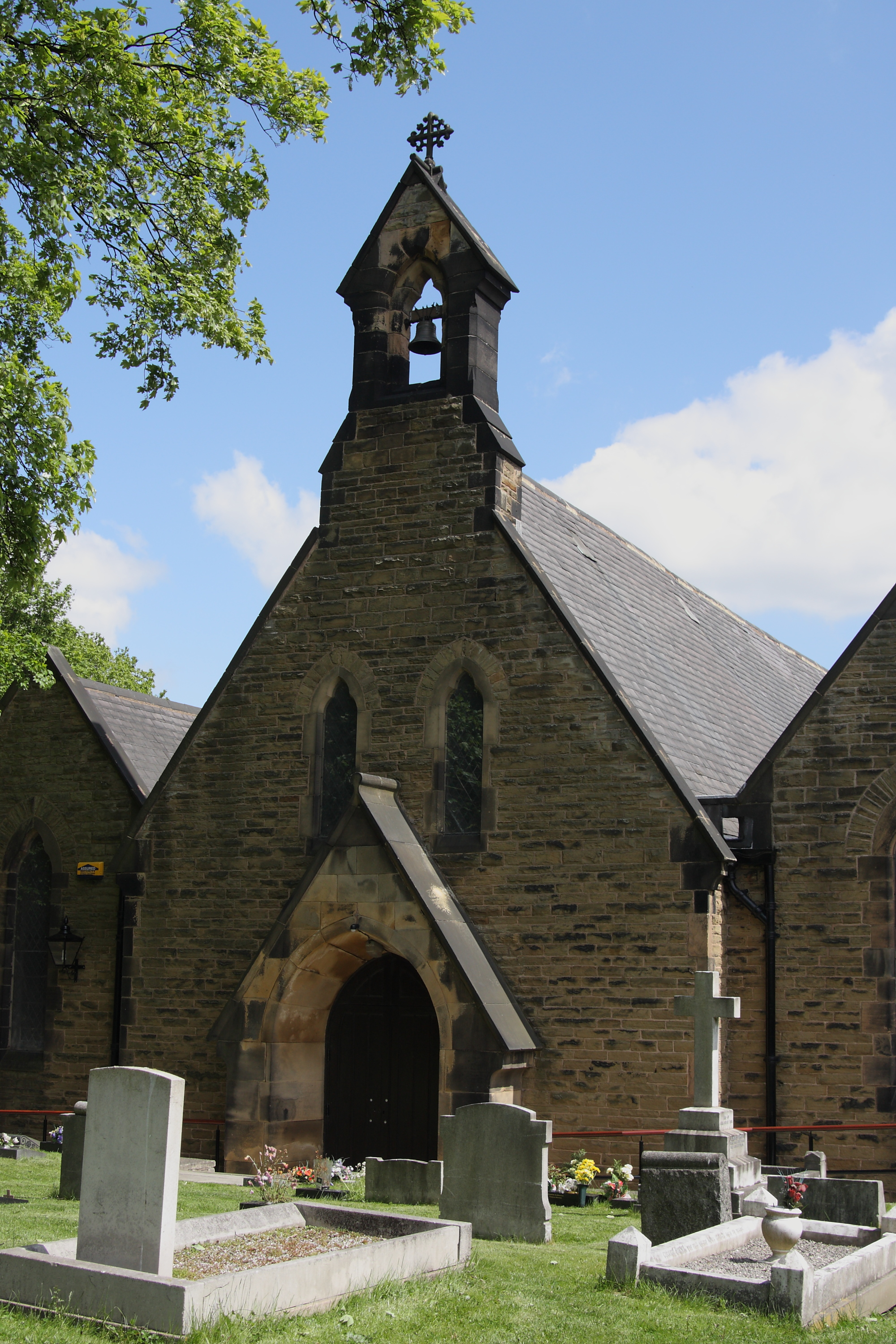 Christ Church, Sheffield Road, Stonegravels, Chesterfield, Derbyshire, seen from the southwest